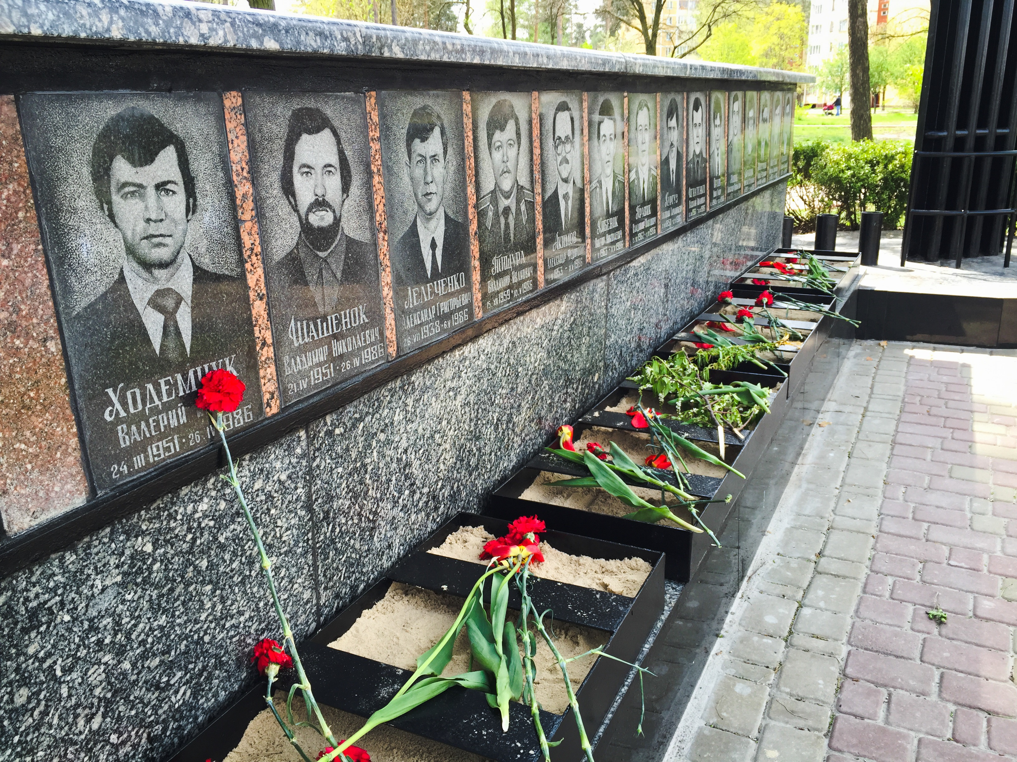 A monument to the Chernobyl liquidators, who died from radiation sickness